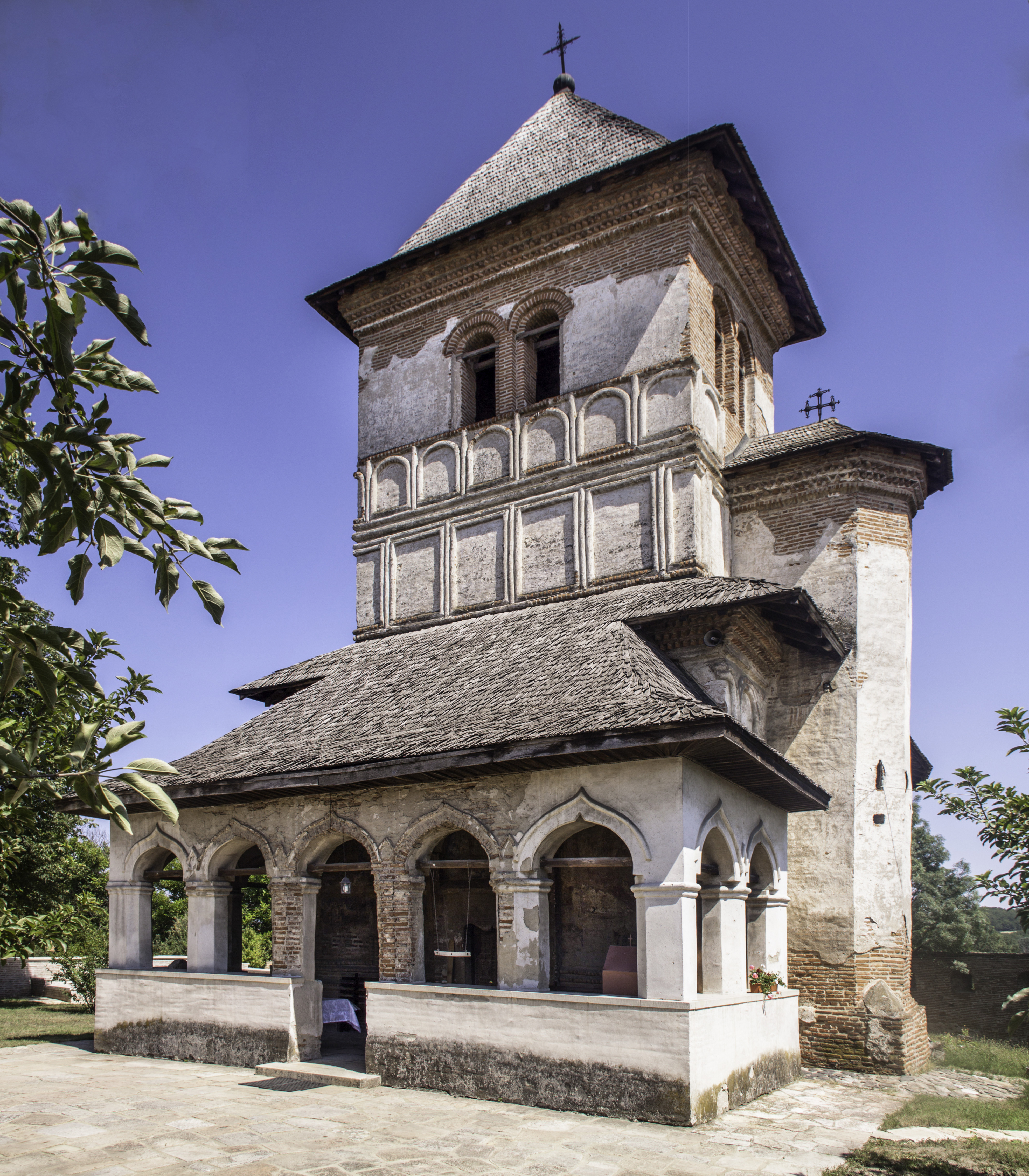 Strehaia Monastery, Mehedinți county, Romania: the church, 17th century.